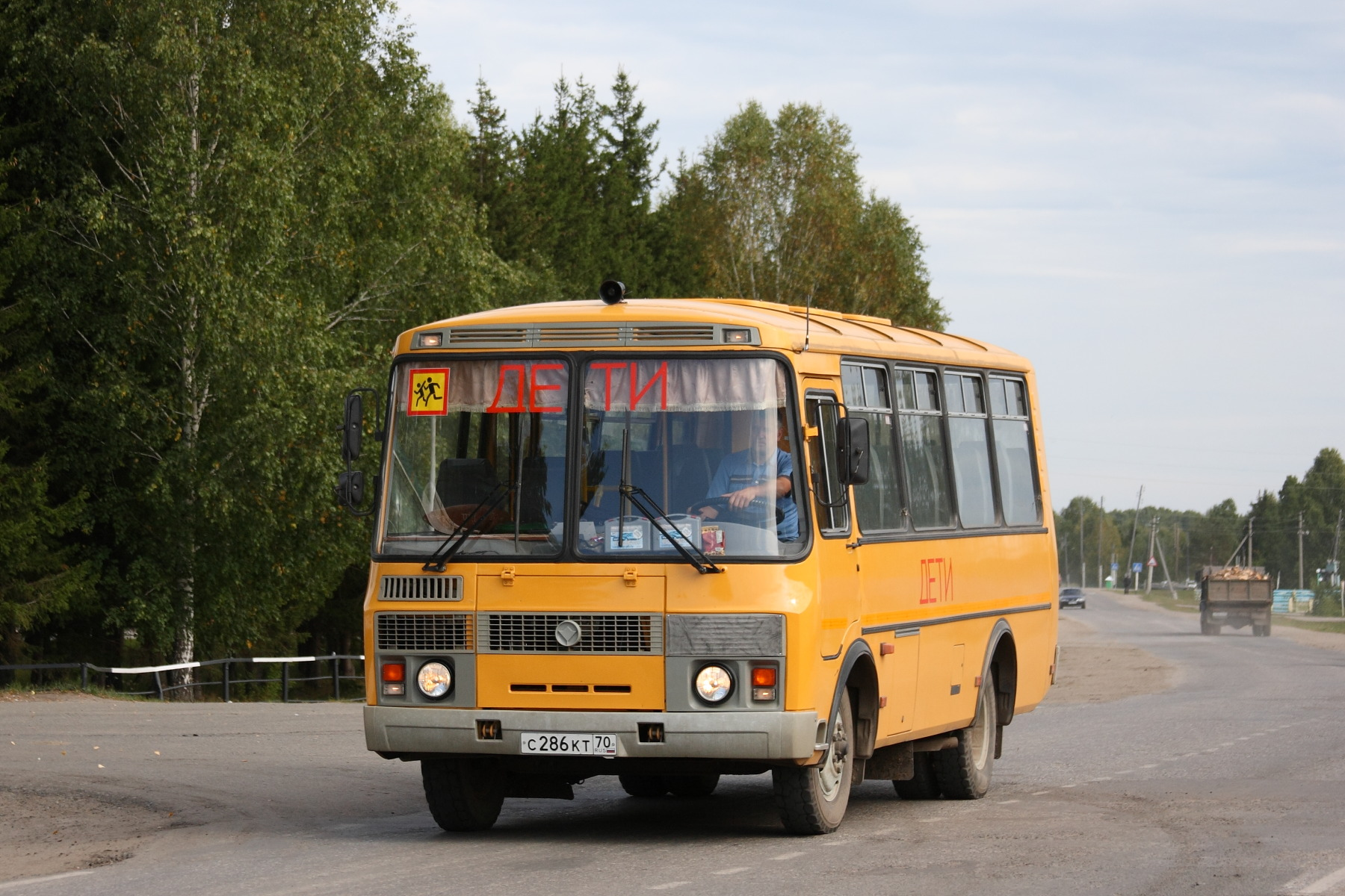 School bus PAZ-32053 in Pervomayskoye, Tomsk region.